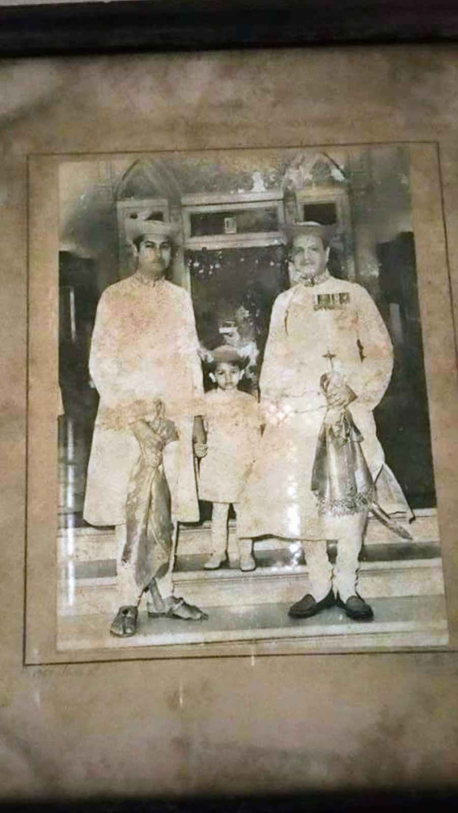 जव्हार के महाराजाओं का परिवार चित्र